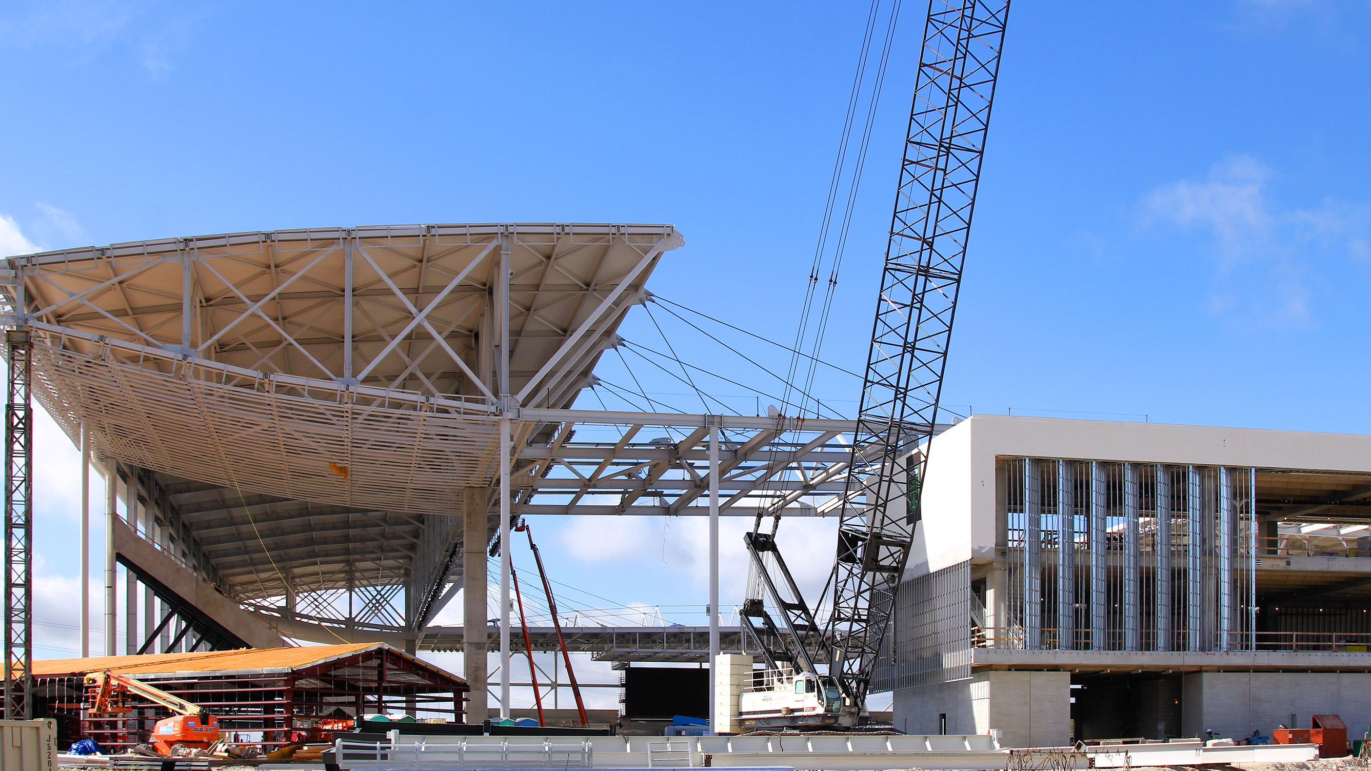 Austin FC Stadium under construction in July 2020 in Austin, Texas, United States.